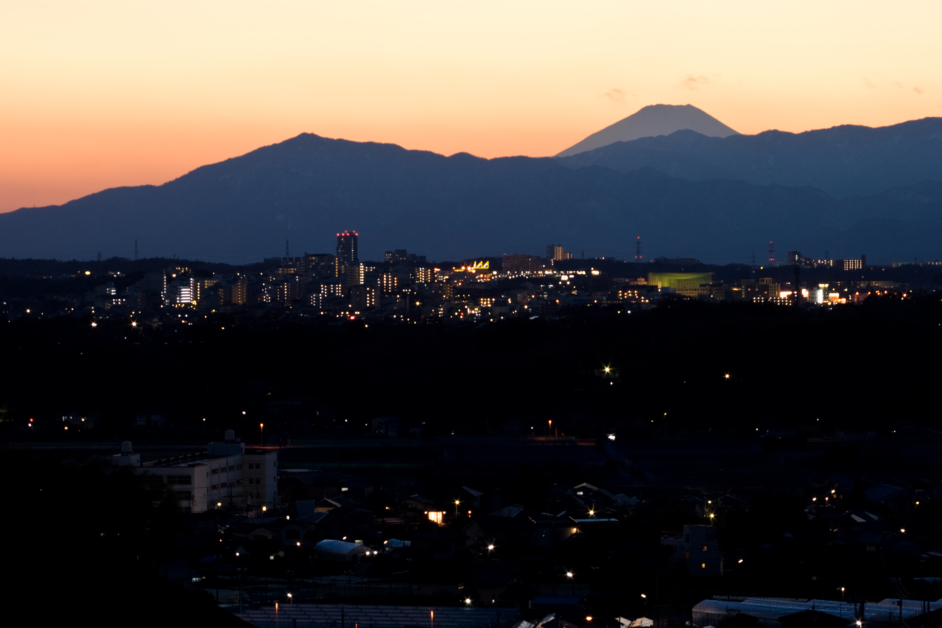 Mount Ōyama (大山 Ō-yama) and Mount Fuji (富士山 Fuji-san) as seen from Kawawa-fuji park (川和富士公園 Kawawa-fuji Kōen) in Yokohama City, Kanagawa Prefecture, Honshū, Japan.